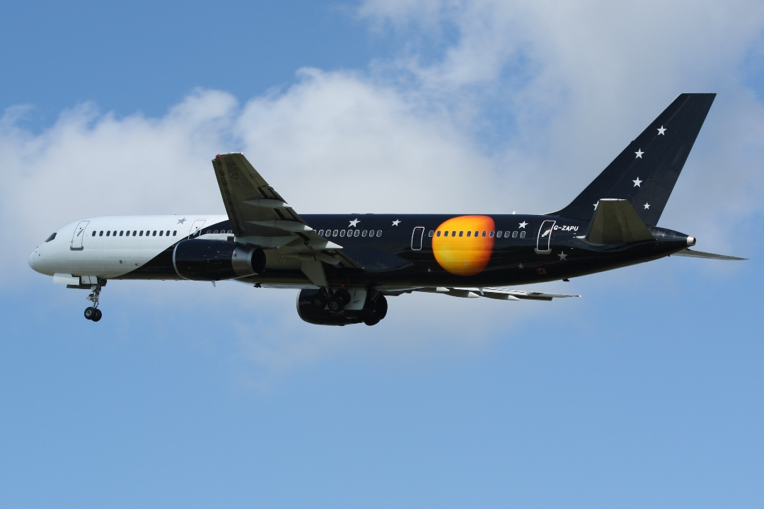 Titan Airways B757-2YO G-ZAPU departing Runway 23L at Manchester.